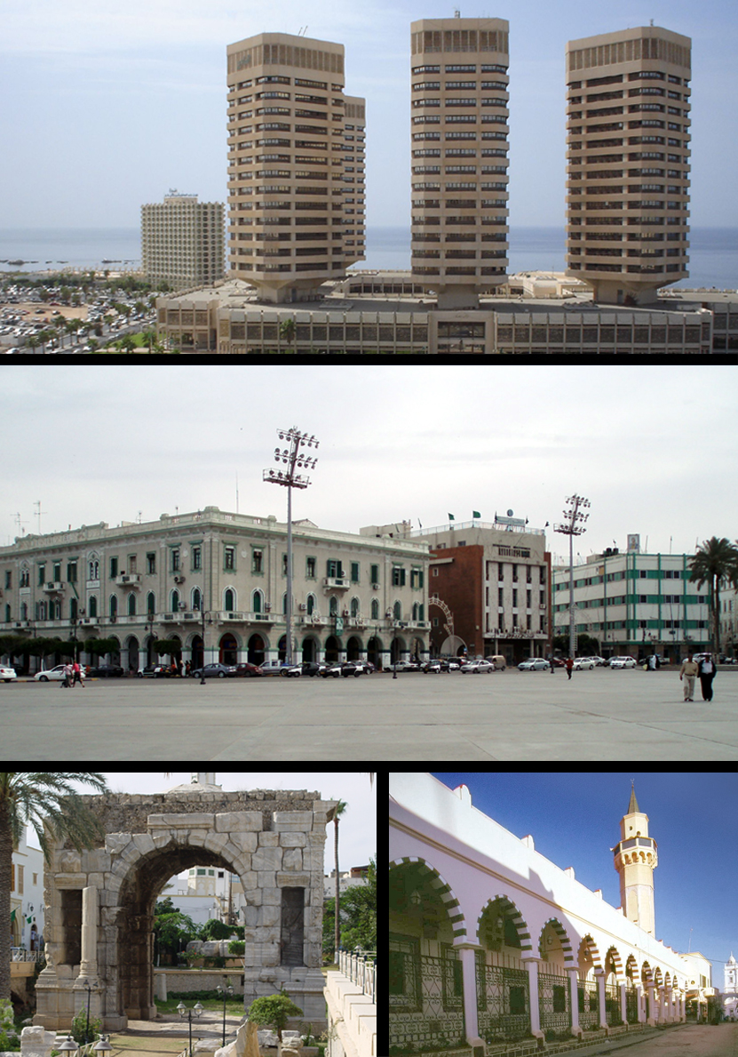 This is a montage image I created for the article in Wikipedia. The image is a montage of other pictures found on Wikimedia. Namely: Top: Skyline - Image:That El Emad Towers Tripoli Libya.jpg (CC-by-2.0) Middle: Green Square - Image:Green Square Tripoli.jpg (Photograph taken by David Holt - CC-by-sa-2.0) Bottom Left: Marcus Aurelius Arch - Image:Marcus Aurelius Arch Tripoli Libya.jpg (Photograph taken by Daniel and Kate Pett - CC-by-sa-2.0) Bottom right: Medina - Image:Tripoli Medina Mosque.jpg (Photograph taken by rahuldlucca - CC-by-sa-2.0)